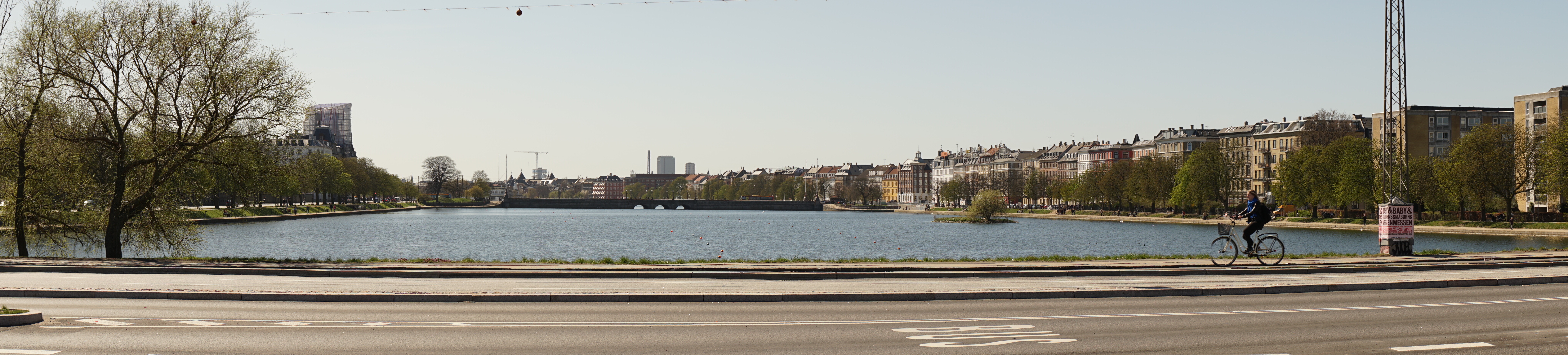 Sortedam Lake in Copenhagen, shot from Fredens Bro looking South-West